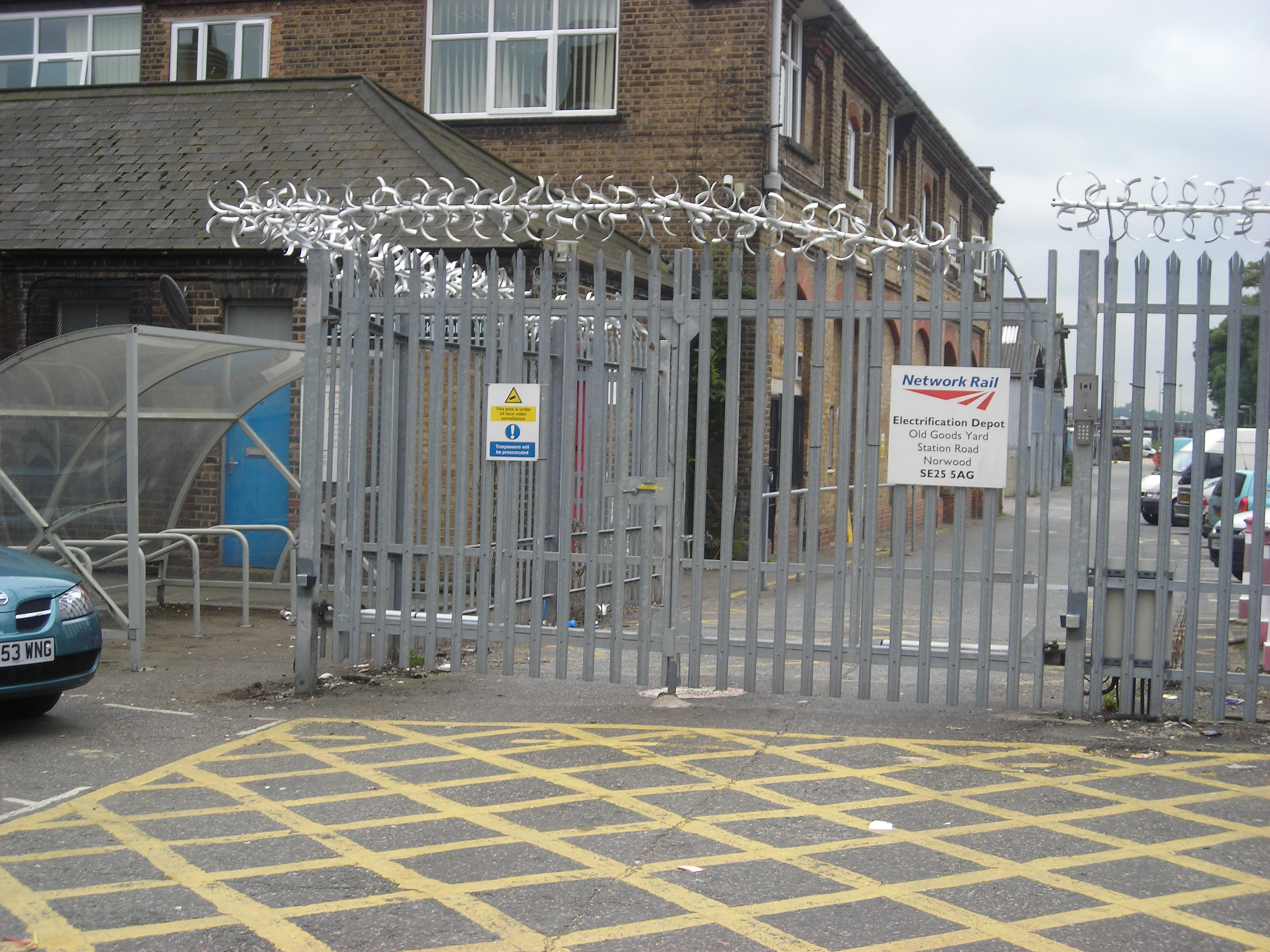 This image is taken at Norwood Junction station